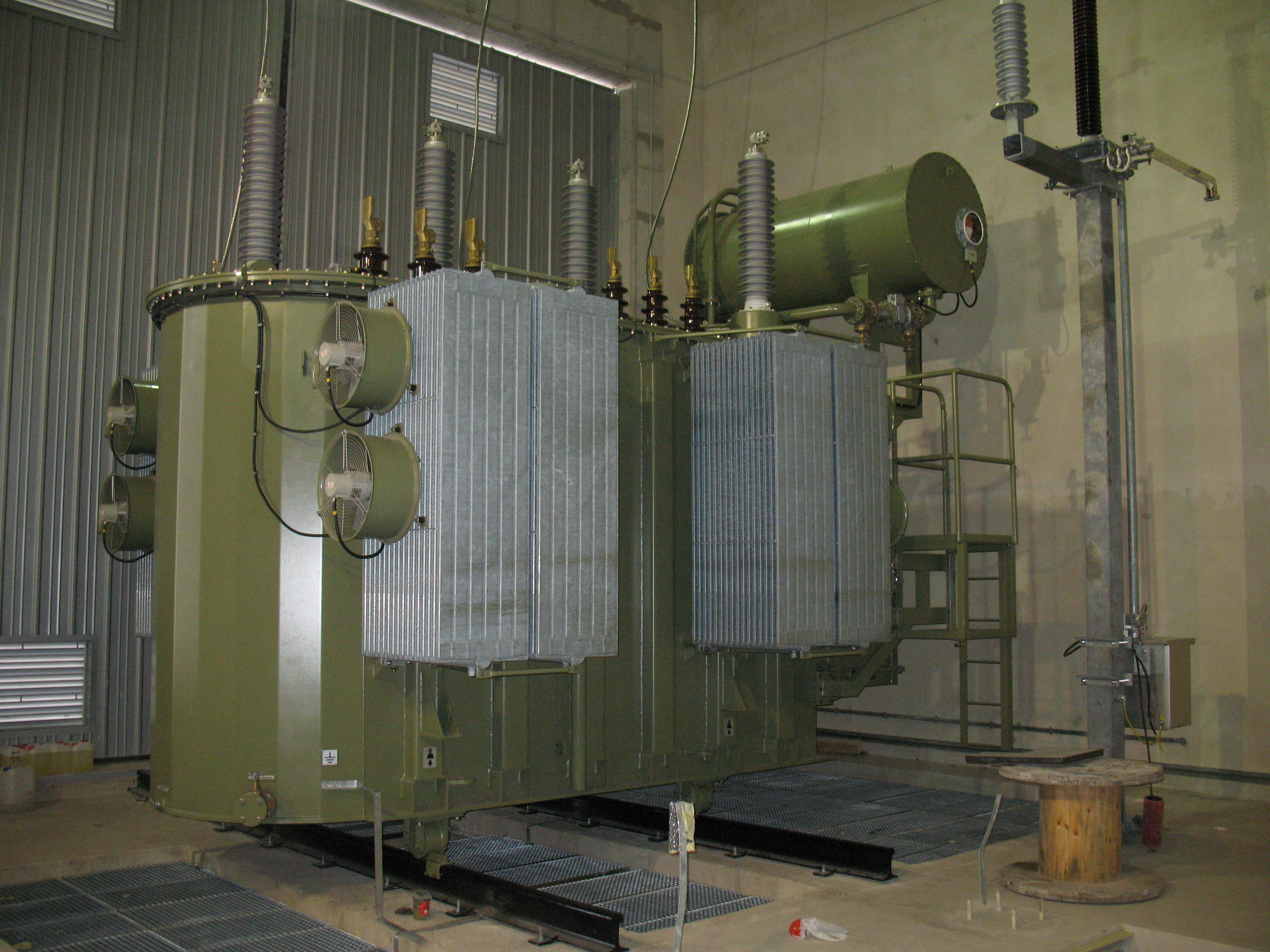 Transformer TRP